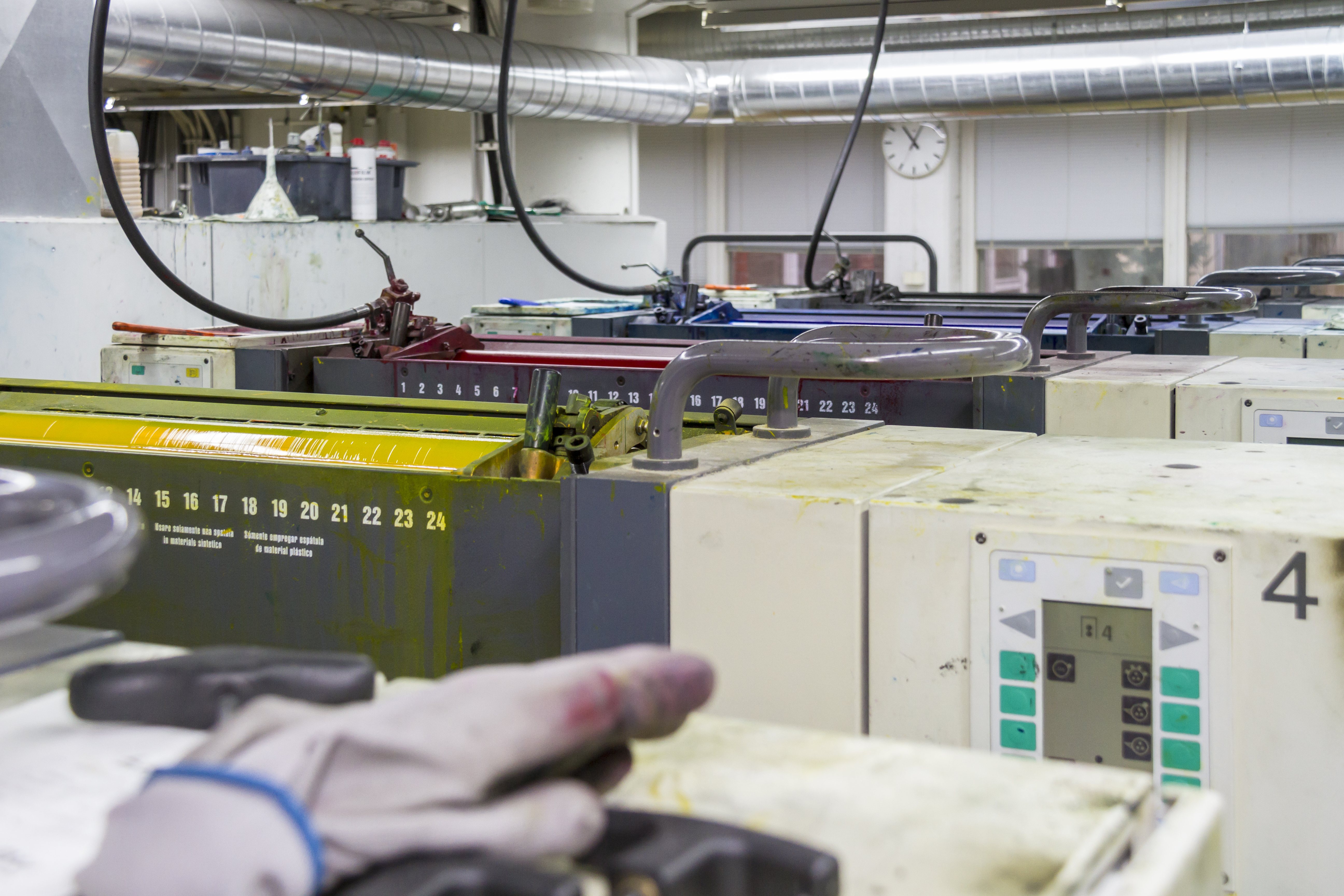 MAN Roland sheetfed offset printing press